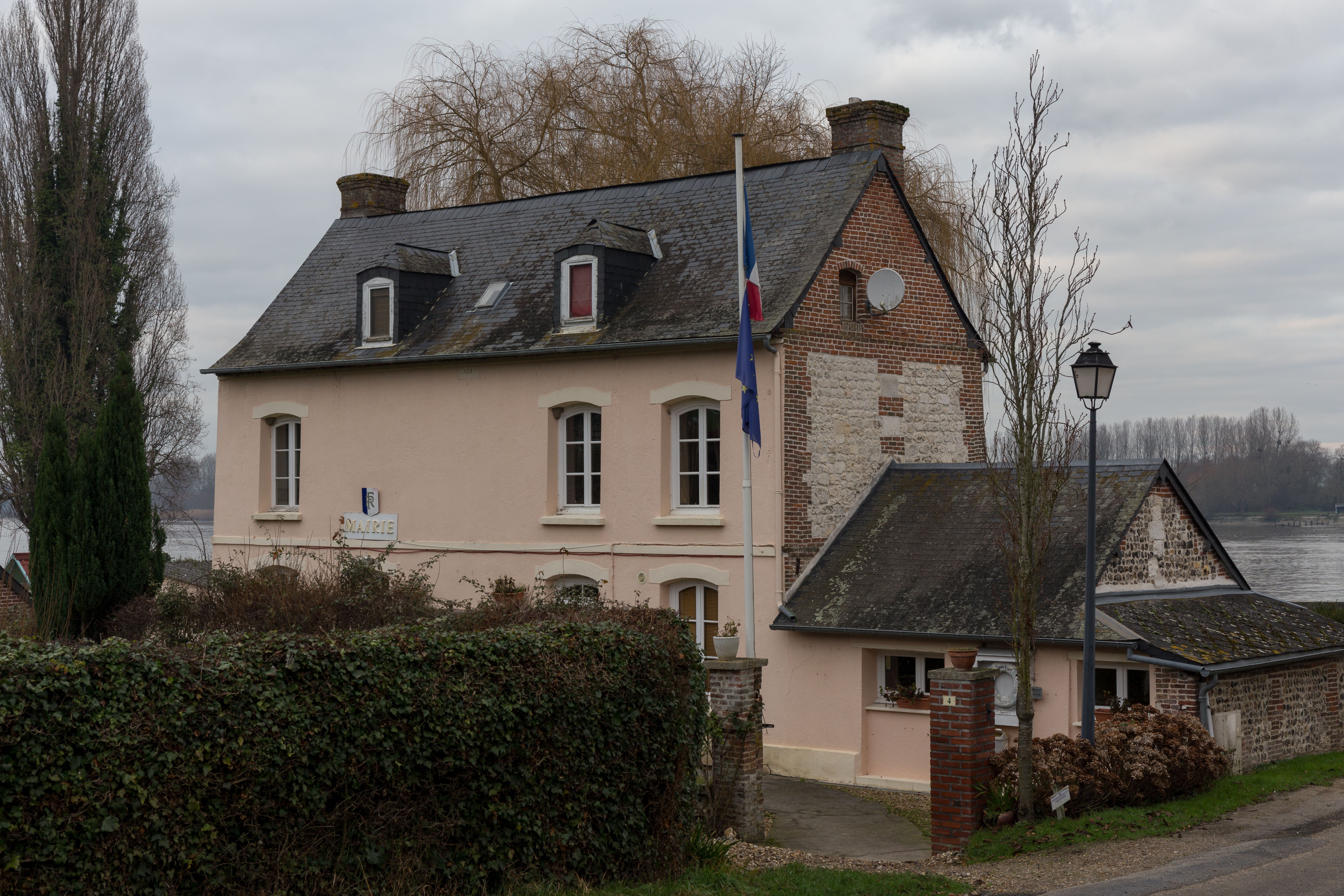 Town hall of Vieux-Port.